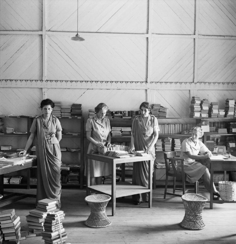 Work of the Red Cross in India In the Library. English and Indian women sorting out books for despatch to troops in Burma